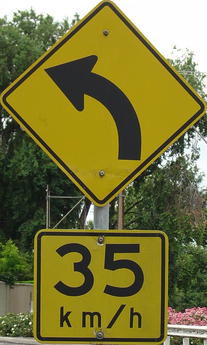 Curve warning and 35 km/h speed advisory signs